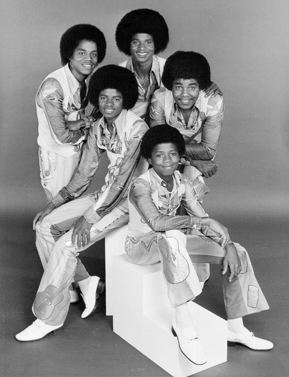 Photo of The Jacksons at the start of their television program of the same name.